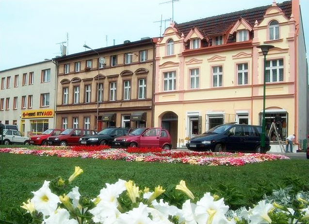 Kamienice na rynku w Kruszwicy